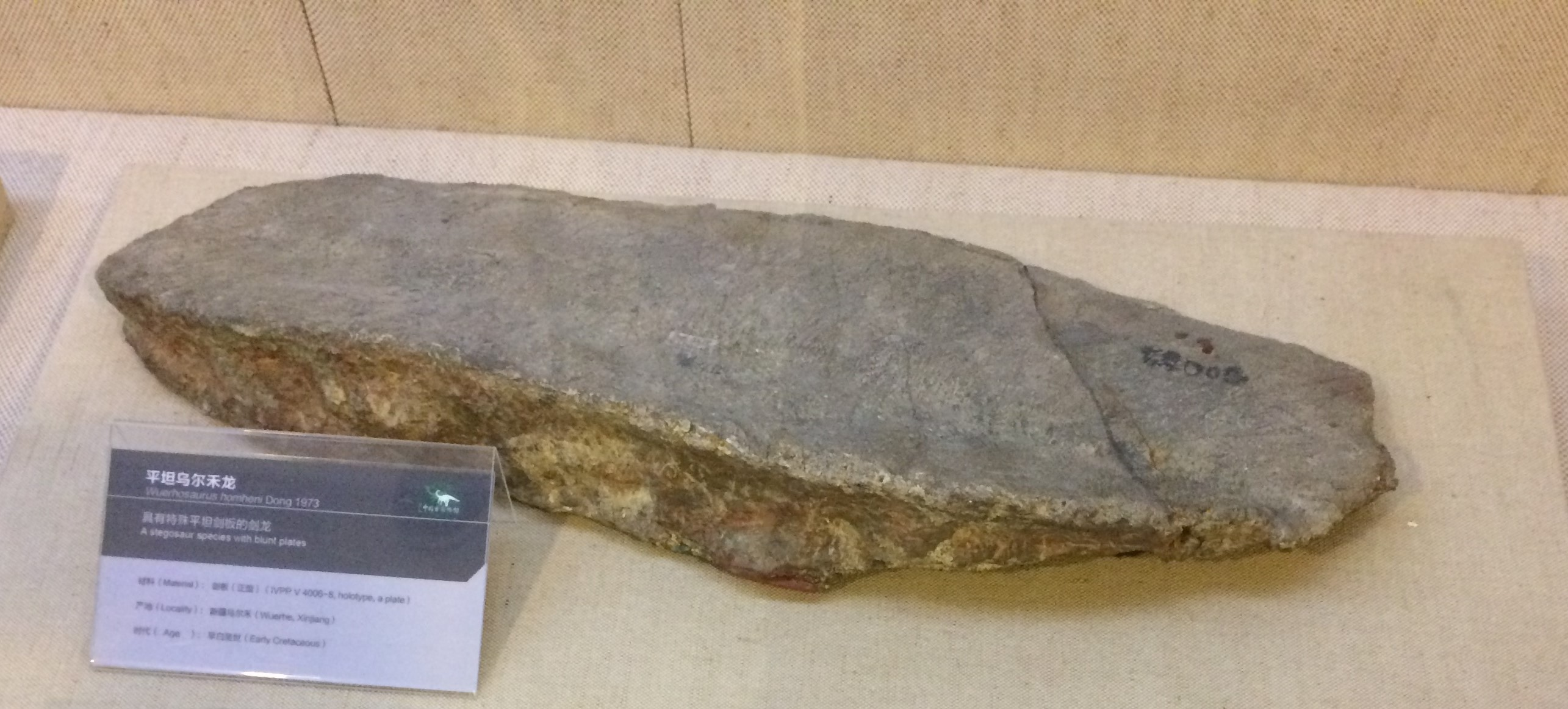 Wuerhosaurus plate at the Paleozoological Museum of China